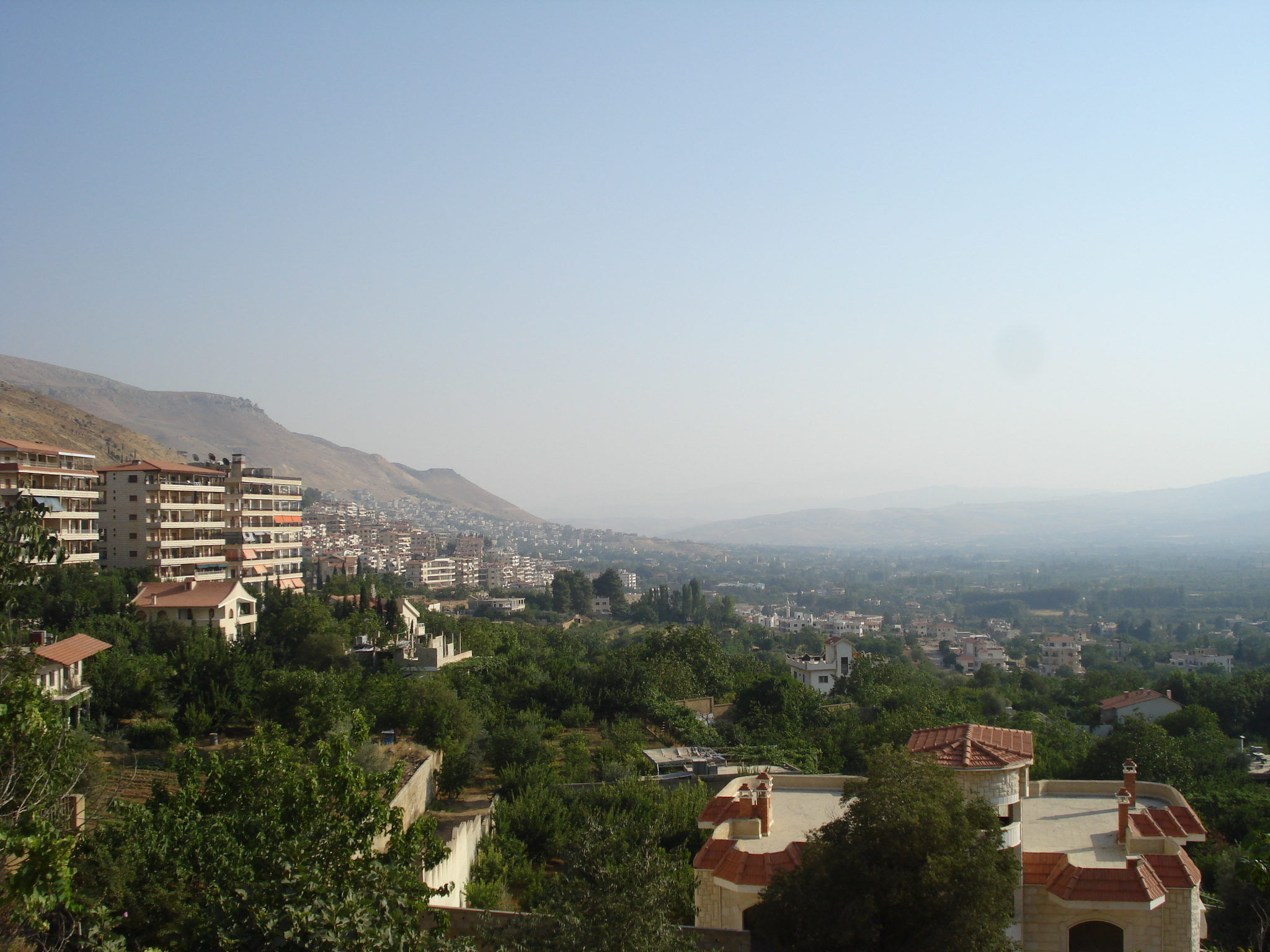 Alzabadani town, Northwestern Damascus,Syria